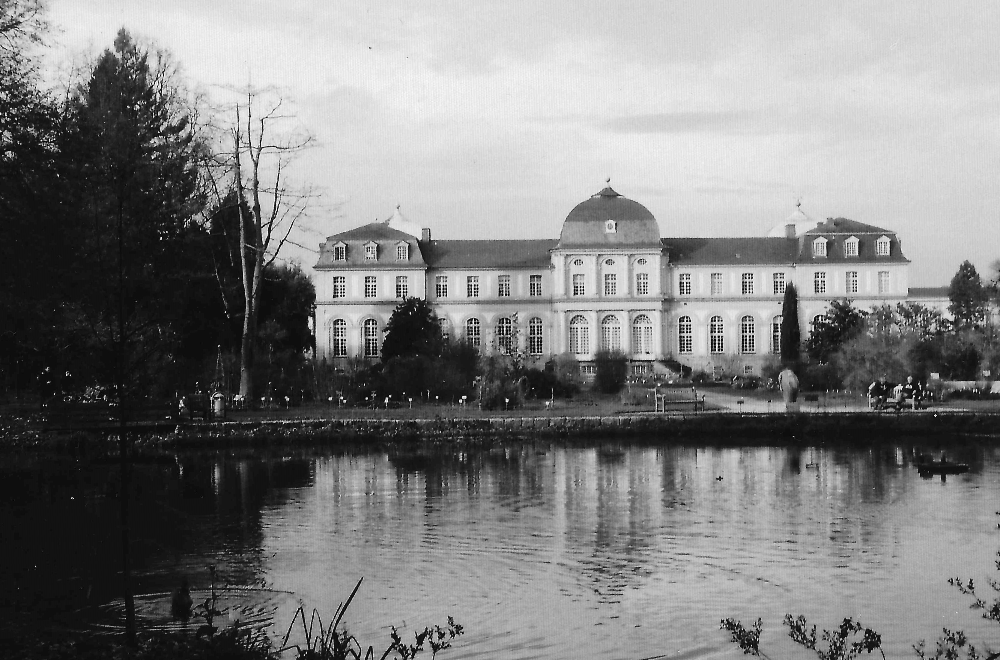 The Poppelsdorfer Schloss with perron to the botanical garden. In front the old moat.